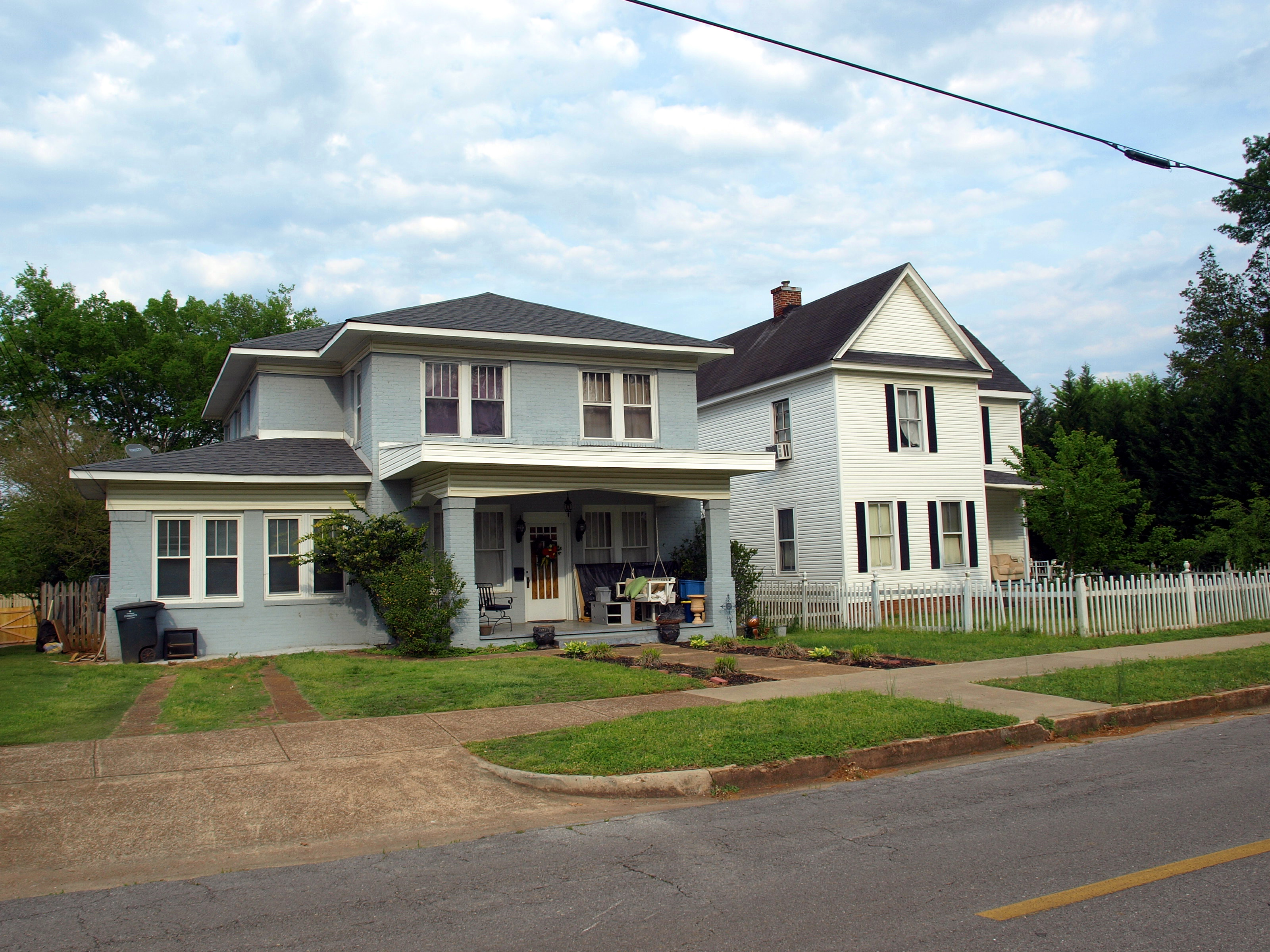 518 and 510 North Cherry Street in Florence, Alabama, part of the Cherry Street Historic District, listed on the National Register of Historic Places.